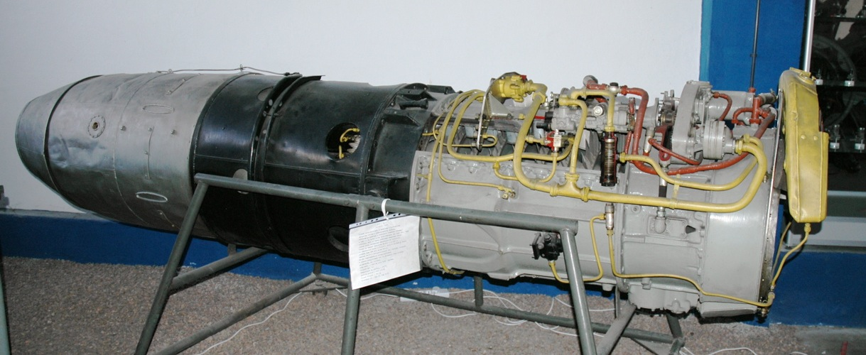 Tumansky RD-10 turbojet engine, a Soviet copy of the Jumo 004 (Polish Aviation Museum, Cracow, Poland)